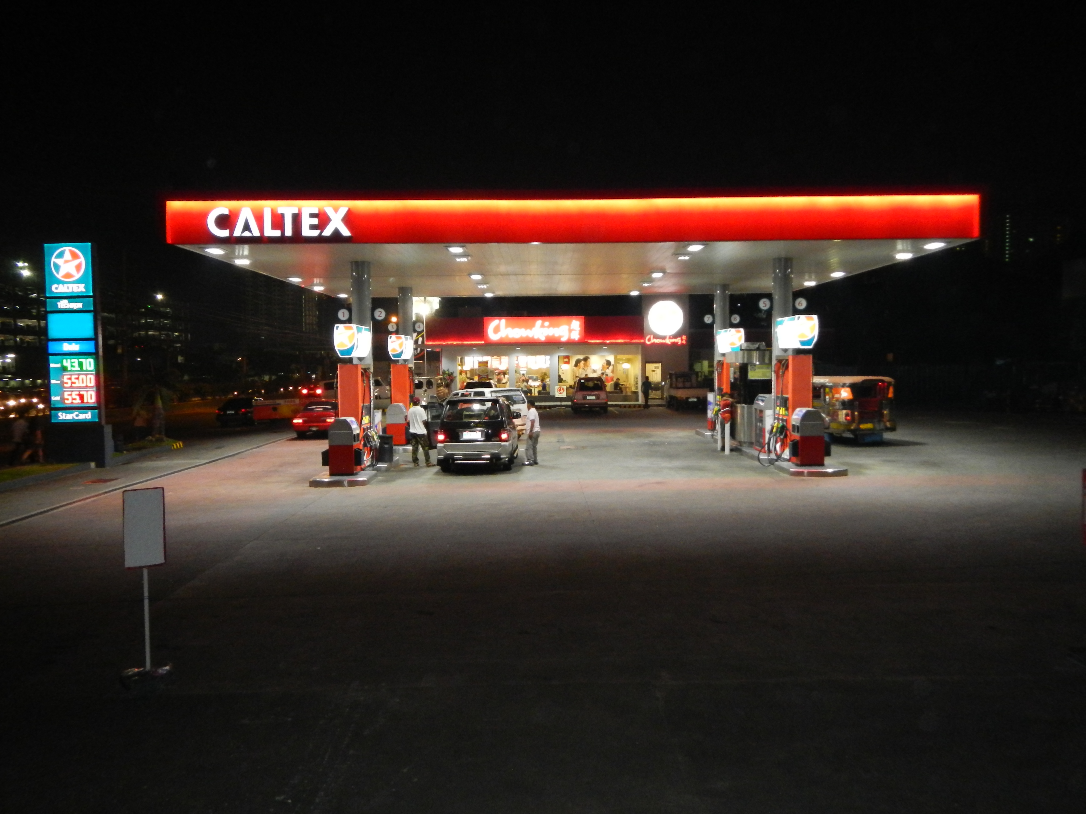 Caltex was established in the Philippines in 1917 (Texas Company, as Texaco, marketing its products in the Philippines through a local distributor, Wise and Co. In 1921, Texaco (Philippines) was formally established and opened its office in Binondo, Manila. Eleven years later, its Pandacan warehouse depot was converted into a key distribution terminal to bring products by barge to nearby provinces. Caltex celebrated its 75th anniversary in July 2011. [1]